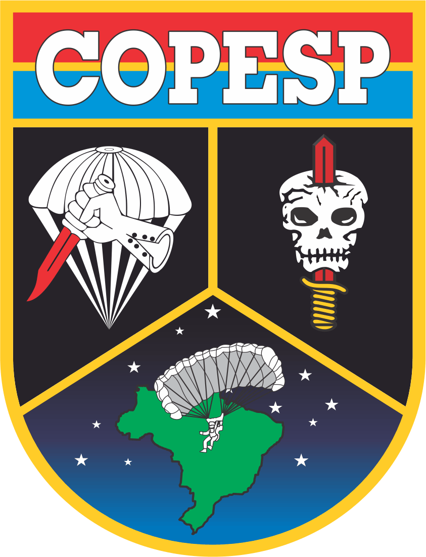 Brazilian Army Special Operations Command insignia.